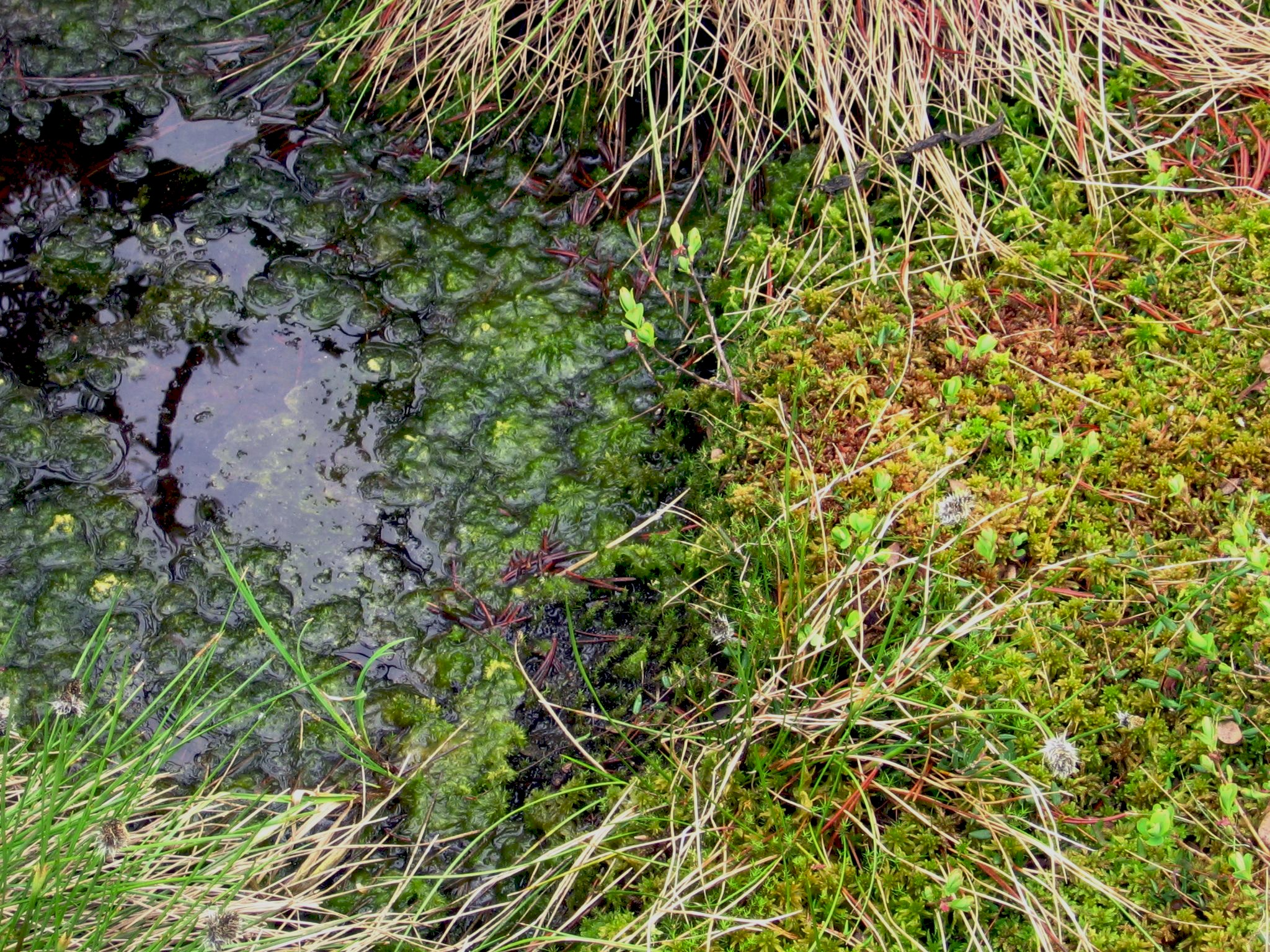 Peat bog vegetaion, Tříjezerní slať (Three lake moor), Šumava